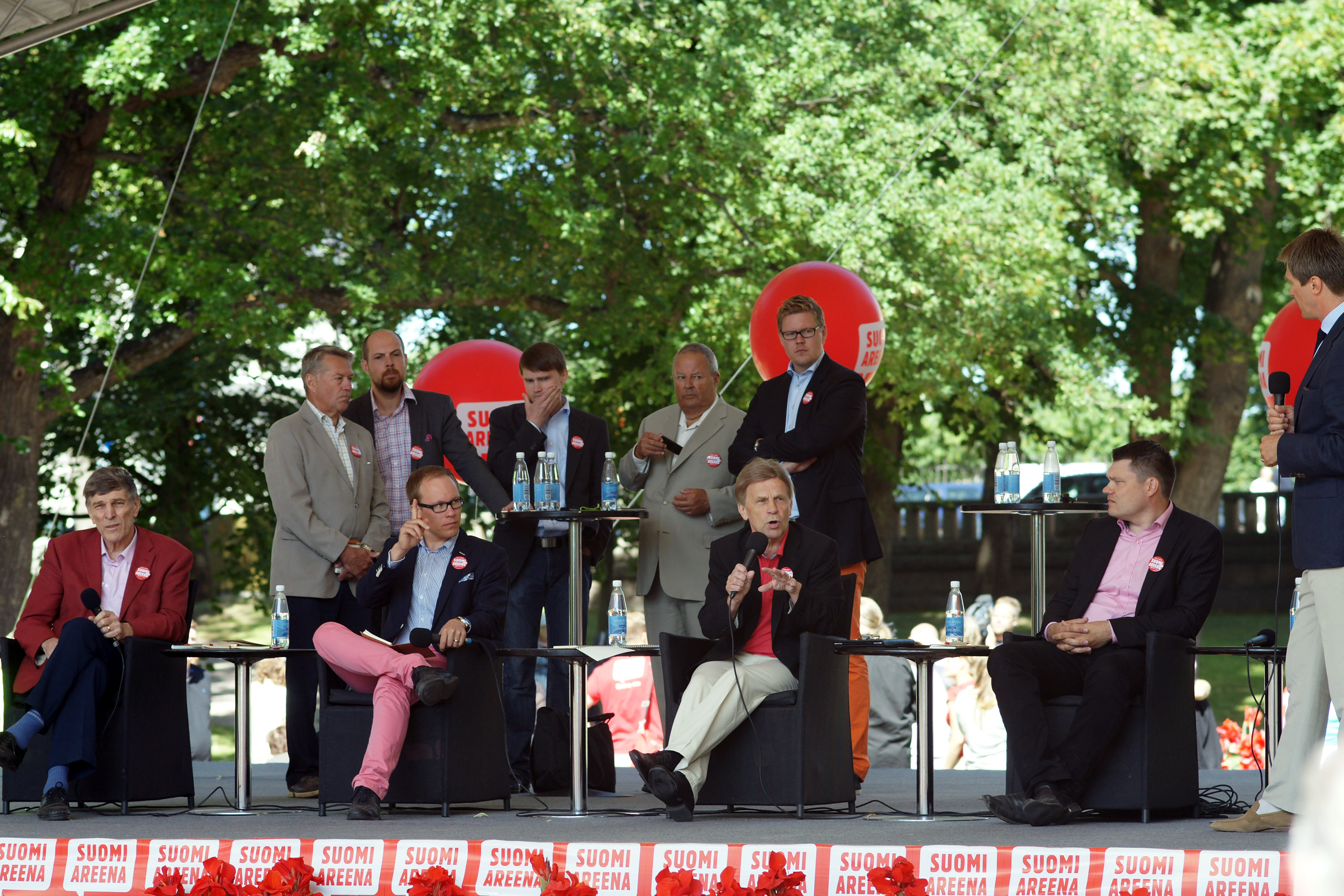 Suomi Areena 2013